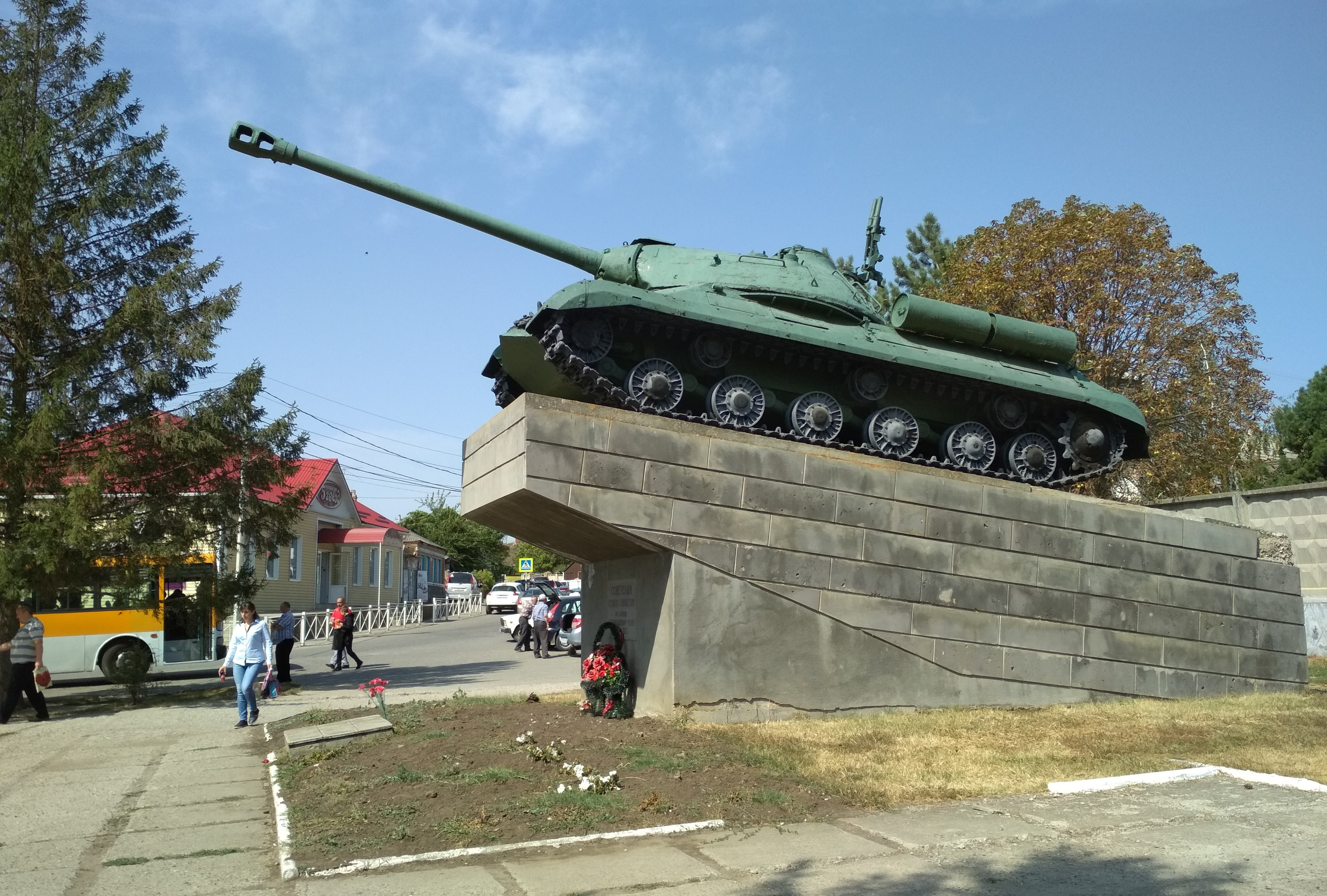 The IS-3 tank in the village of Aleksandrovskoye (Stavropol Territory) was installed in honor of the 44th Army warrior who liberated the Aleksandrovsky region from the Nazis during the Great Patriotic War.